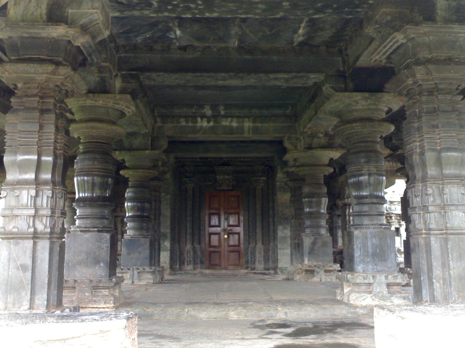 Lakkundi Temple Source nad Author: Manjunath Doddamani, Gajendragad / Hubli, Karnataka(North), India